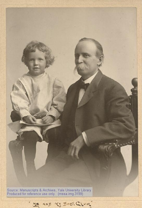 Dr Land with grandson famous aviator Charles Lindbergh circa 1905